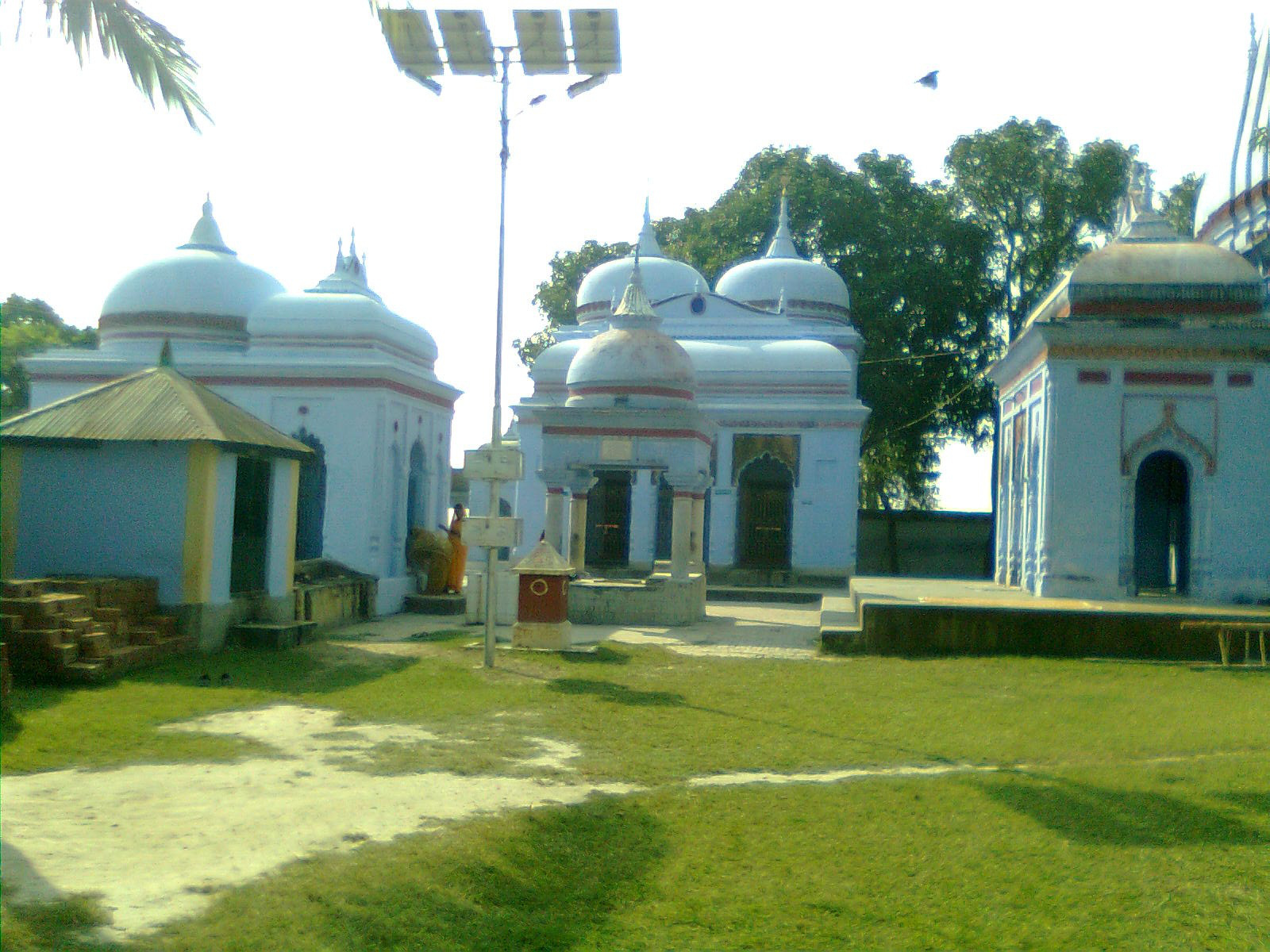 It is the Ashram of Gautam Rishi is situated 5km west from Chapra.